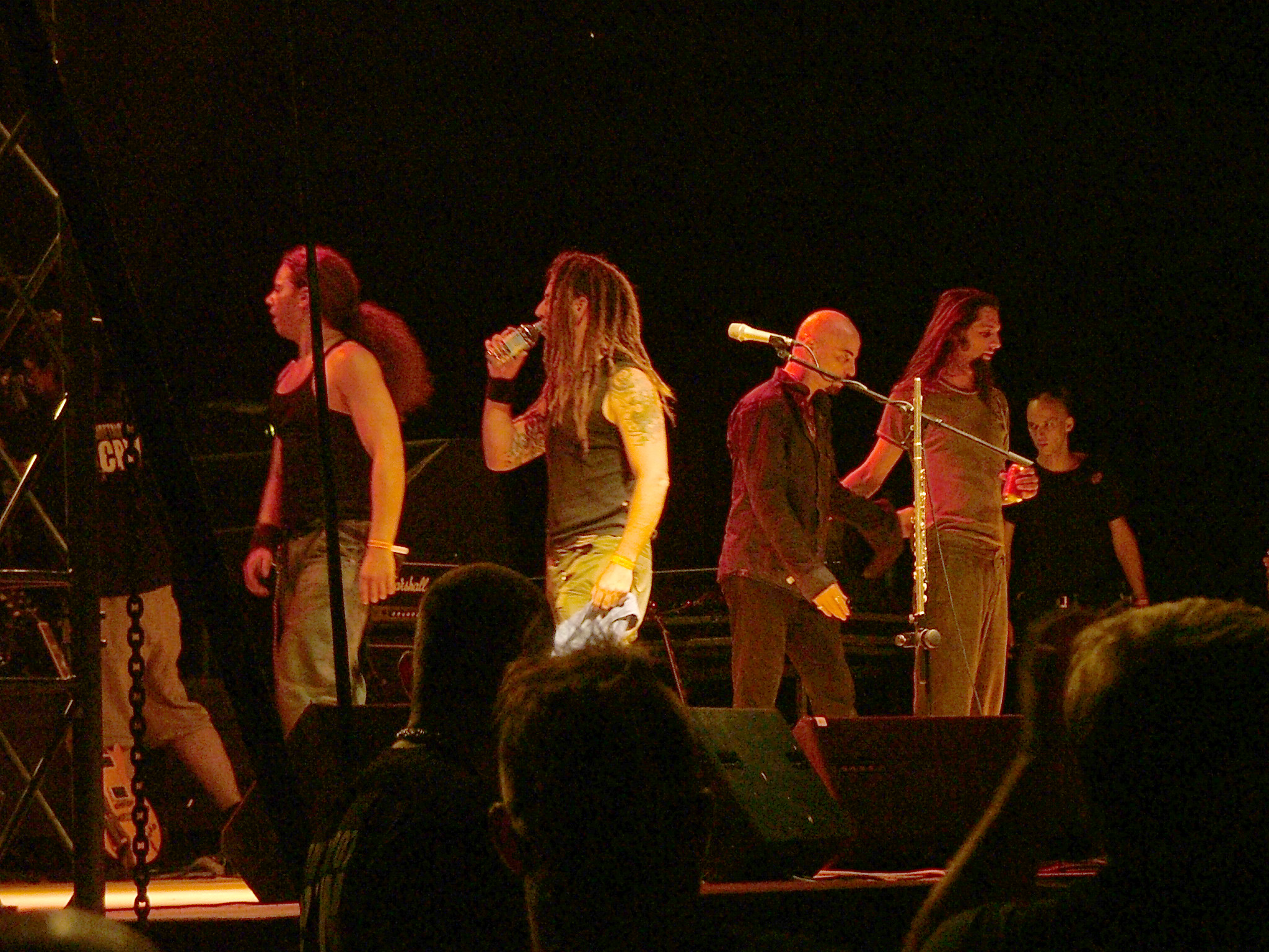 Austrian progressive metal band Deadsoul Tribe at the Metalcamp in Tolmin